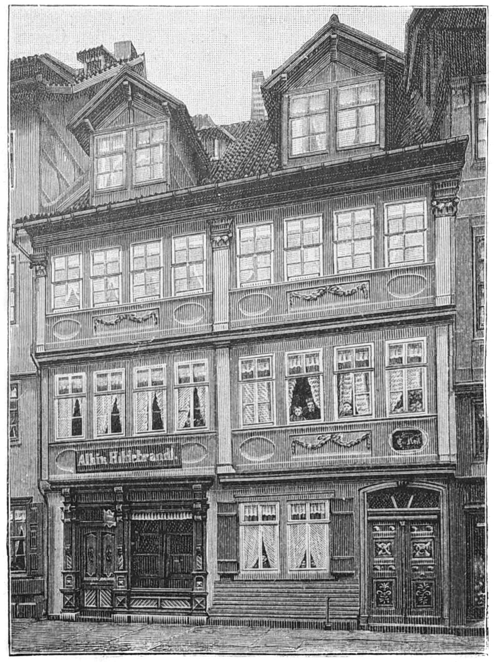 caption: "Ernst Keils Geburtshaus in Langensalza.Nach einer Photographie von C. Bregazzi in Langensalza."